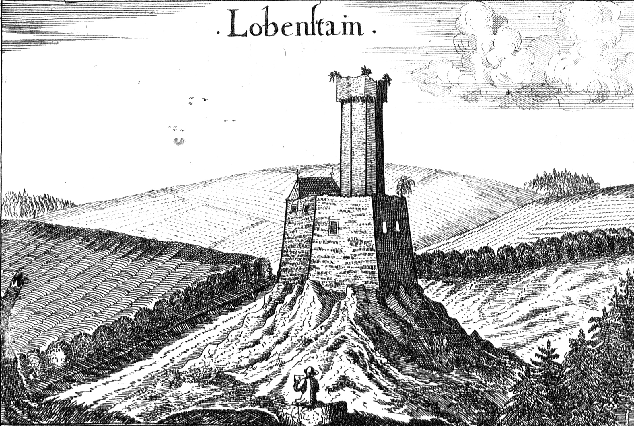 Castle Lobenstein in Upper Austria, drawn by G. M. Vischer 1674.